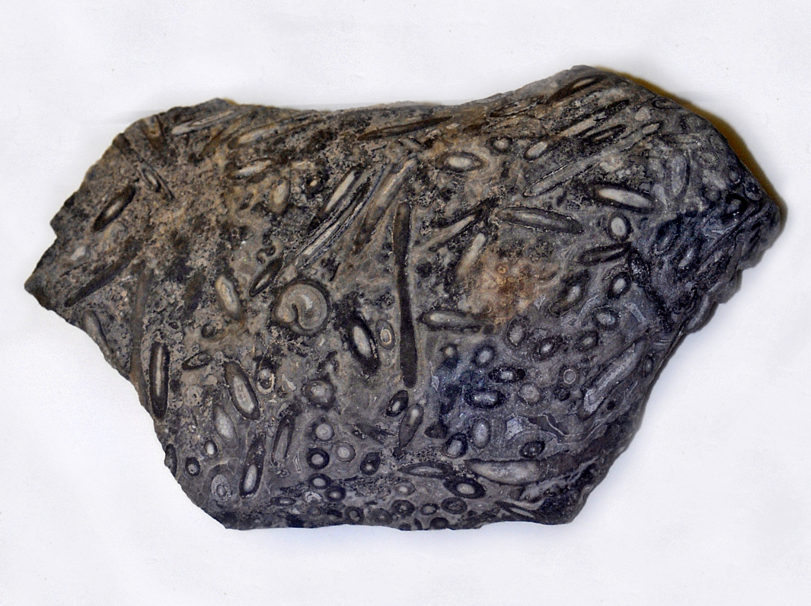 Fossil of Diplopora annulata from Triassic of Italy, on display at the Museo Civico di Storia Naturale di Milano